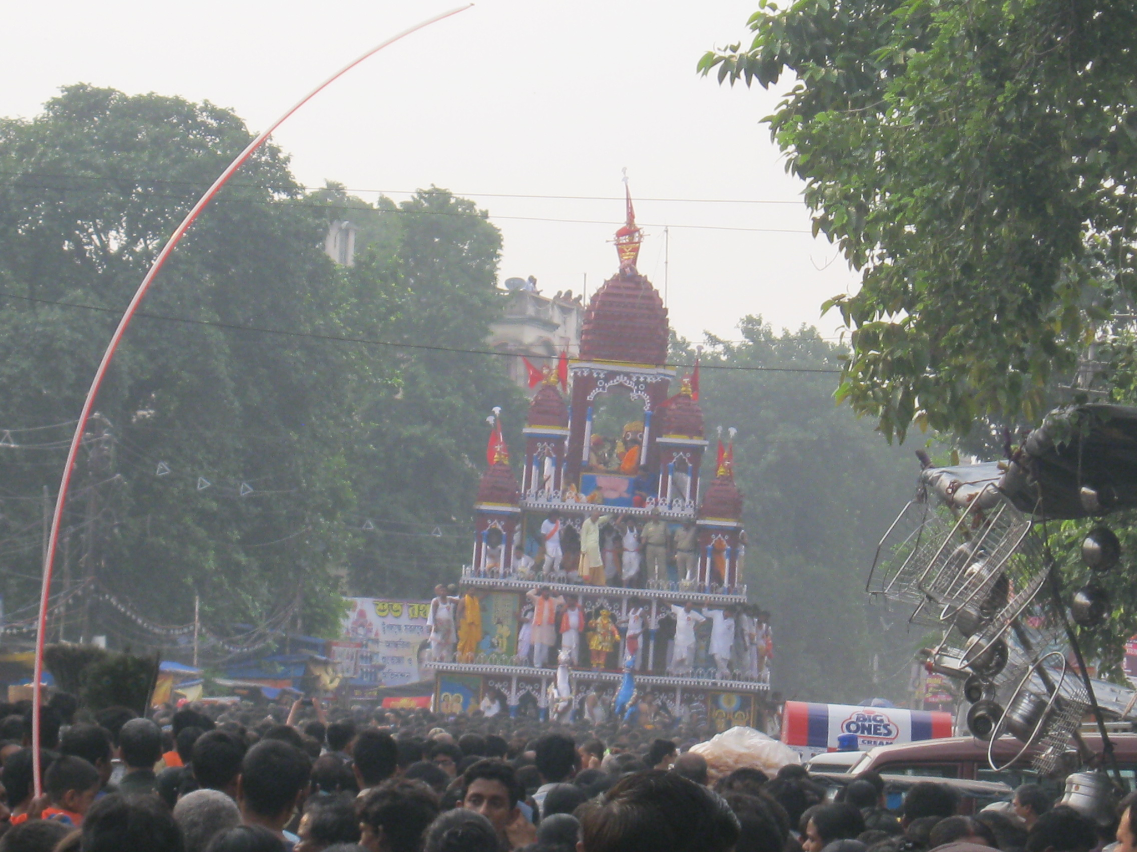 Rath